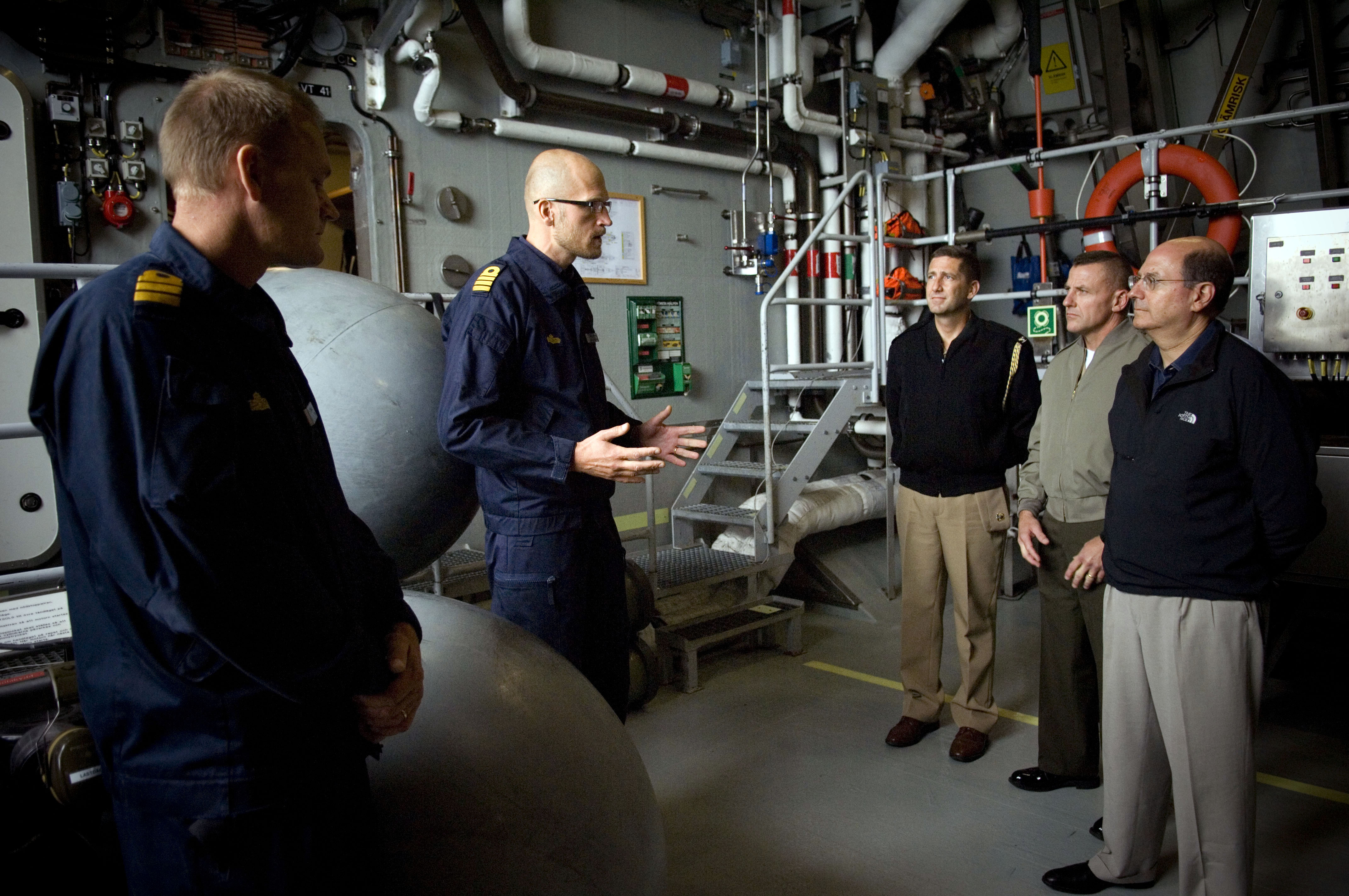 Secretary of the Navy (SECNAV) the Honorable Dr. Donald C. Winter receives an at sea tour of Swedish Visby-class Corvette FSGH Helsingborg (K32). Winter is traveling through European and Central Command areas of responsibility meeting with civilian contractors and military service members.